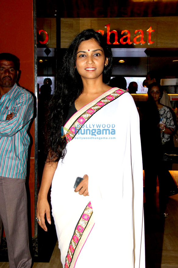 Usha Jadhav at the premiere of Marathi film Manatlya Unhaat